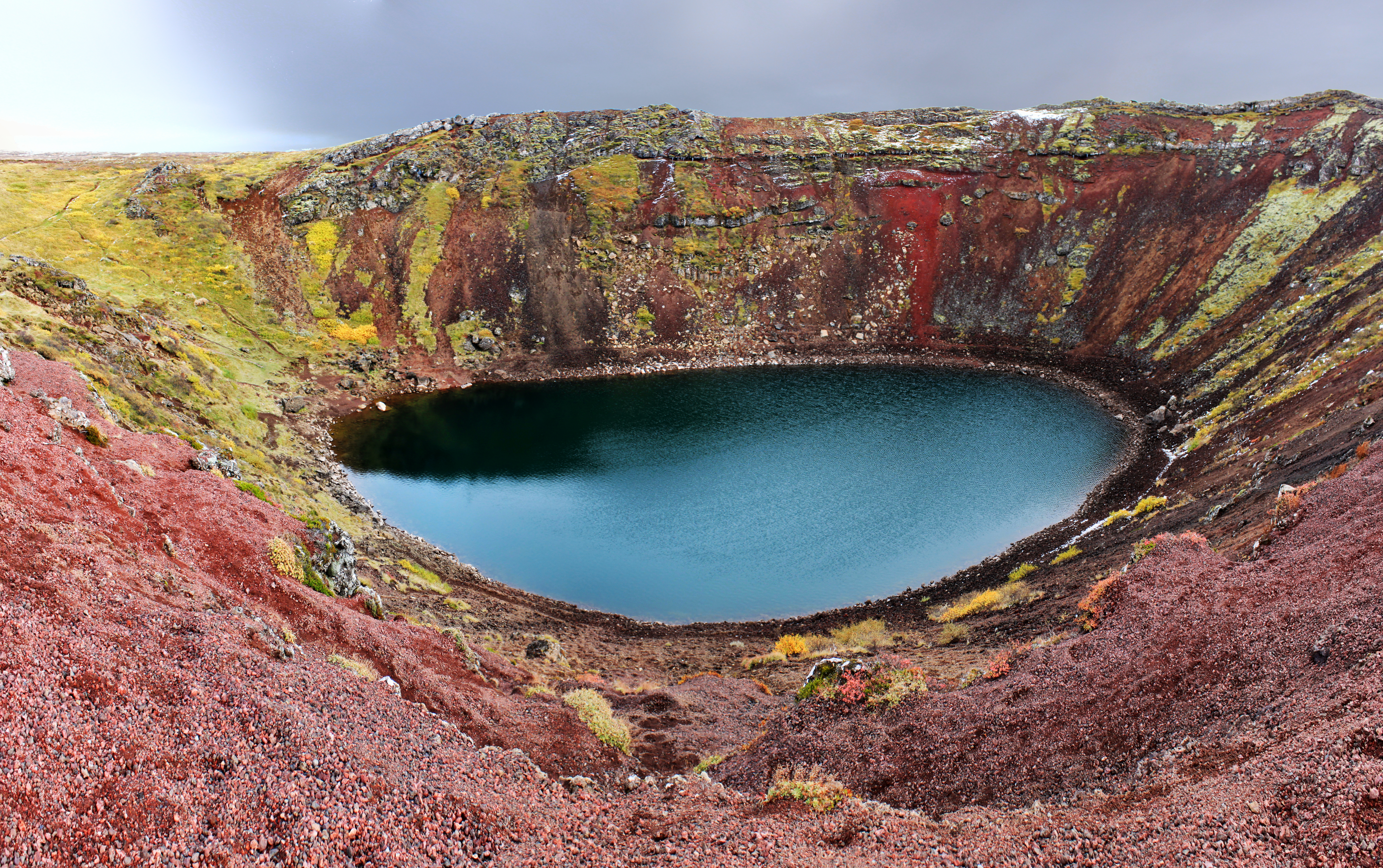 Panoramic photo of Kerið, taken in early October, 2009.